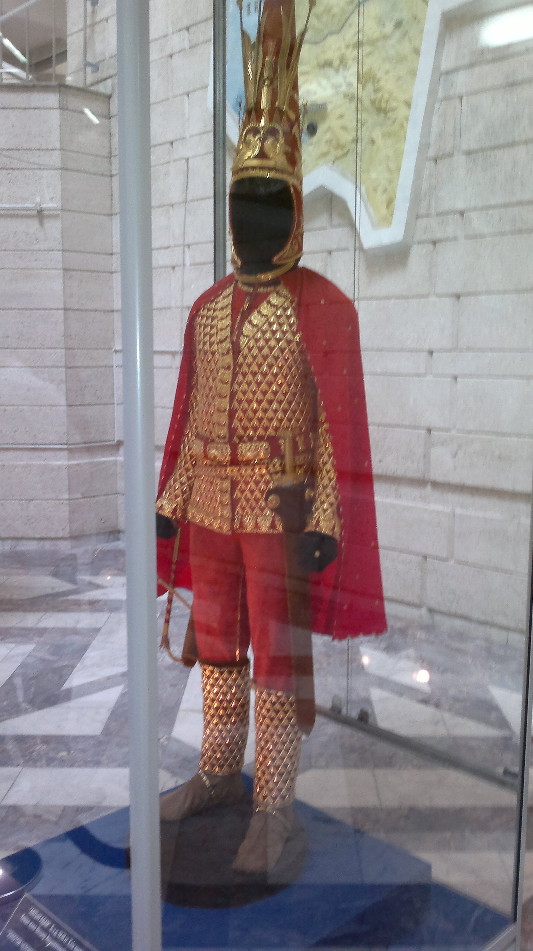 Golden Man in Central State Museum of the Republic of Kazakhstan